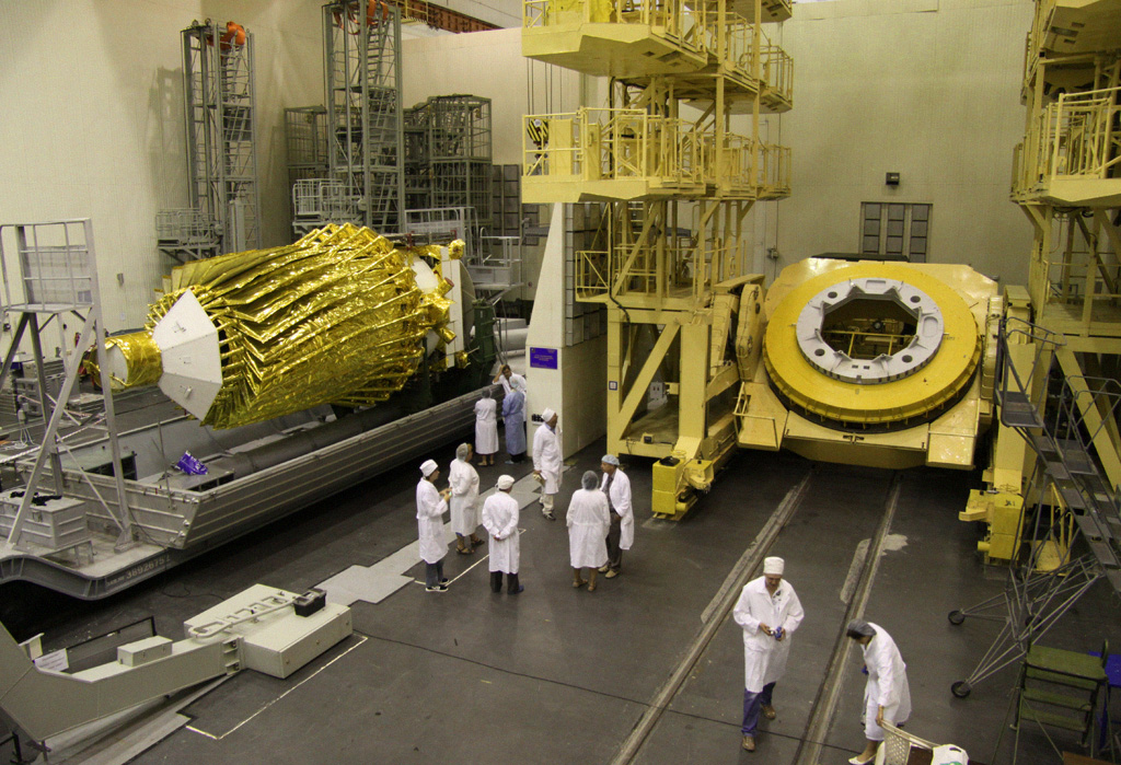 “Russian Spektr R space-born radio telescope”. The Russian Spektr R space-born radio telescope at the integration and test complex of Launch Pad No.31, the Baikonur Space Center.